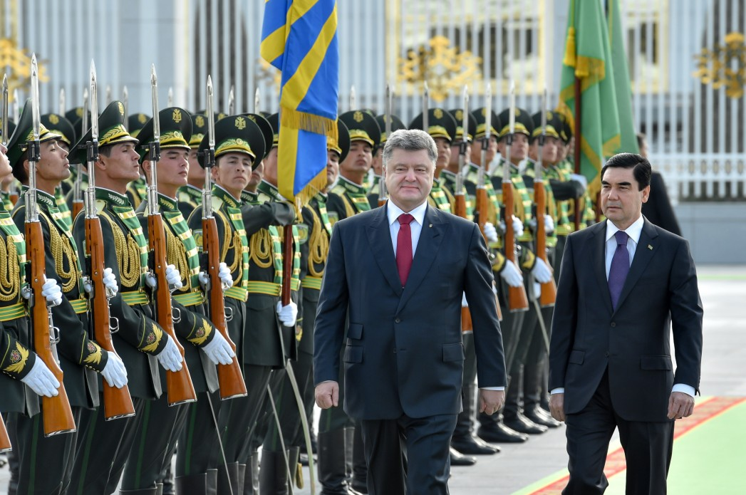 President Petro Poroshenko noted that his visit to Turkmenistan opened new opportunities for Ukrainian companies in the cooperation between the two countries.